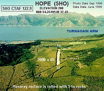 Annotated aerial photograph of Hope Airport (FAA: 5HO) in Hope, Alaska, United States.